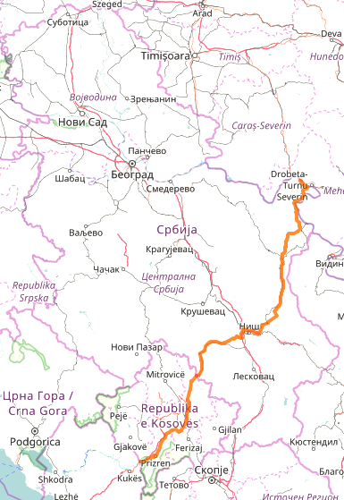 OpenStreetMap of State Road 35 in Serbia.